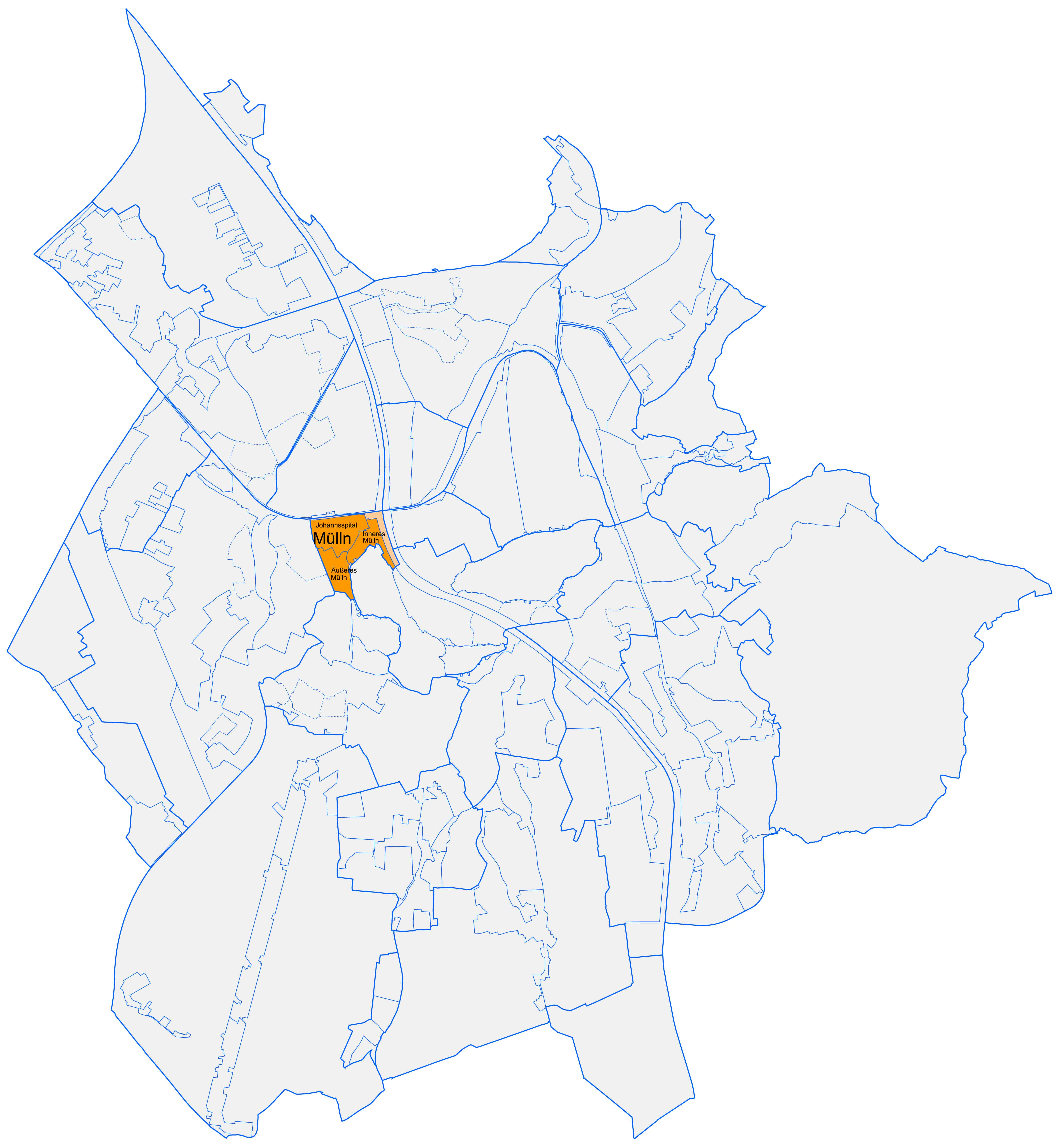 a quarter of the town of Salzburg: Mülln